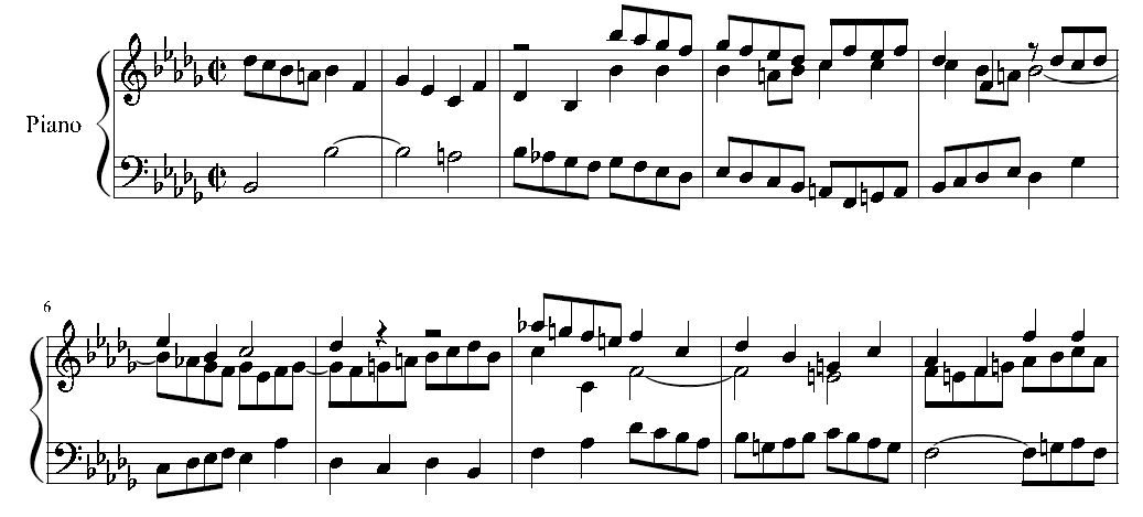 Beginning of Prelude, BWV 891